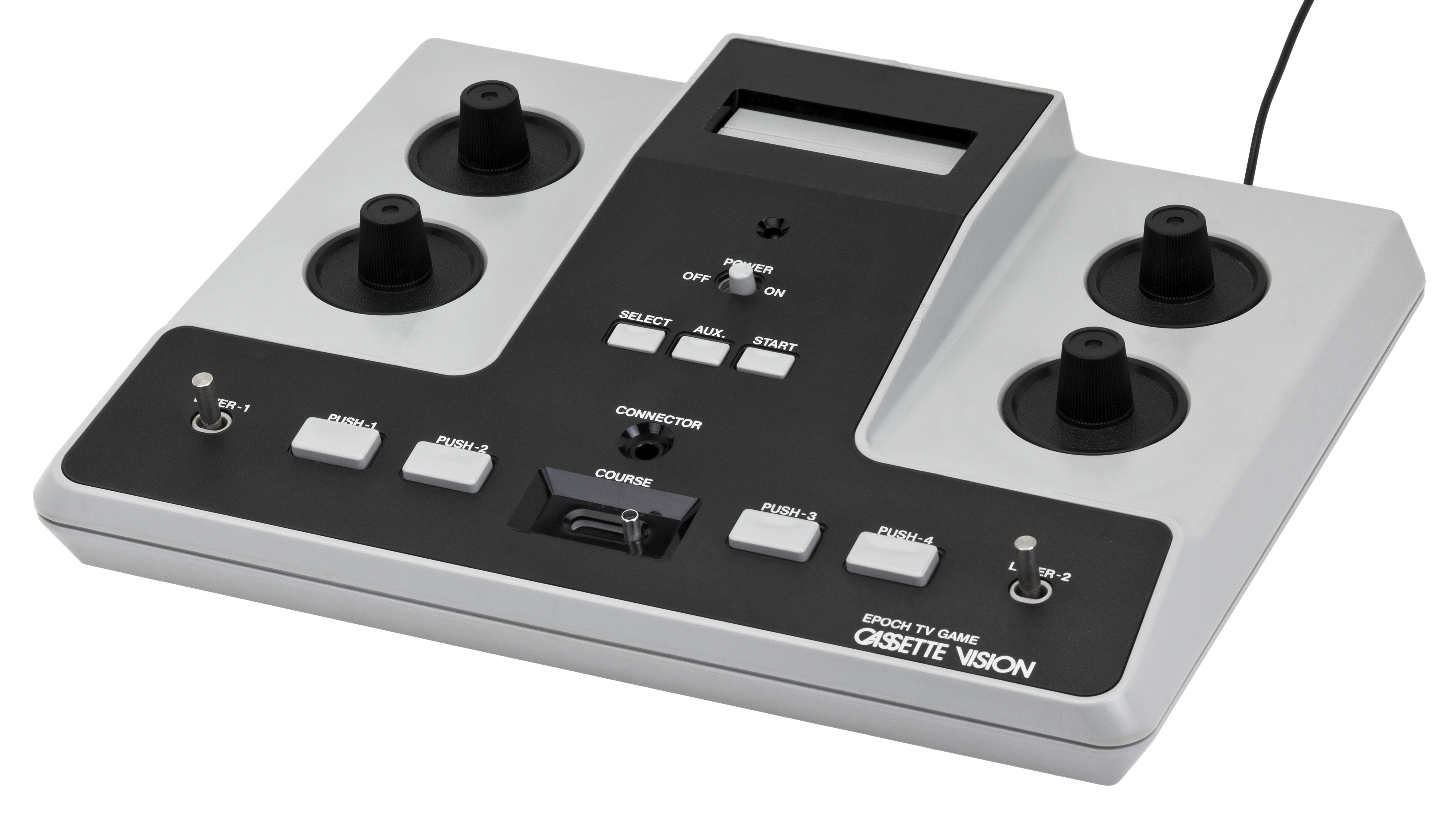 The Epoch Cassette Vision, a second generation video game console released only in Japan in 1981.